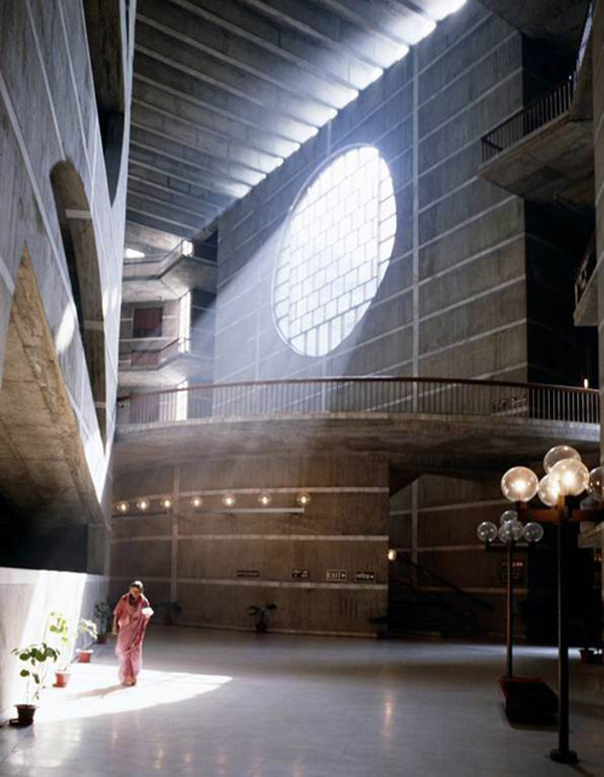 Jatiyo Sangshad Bhaban,Dhaka, Bangladesh